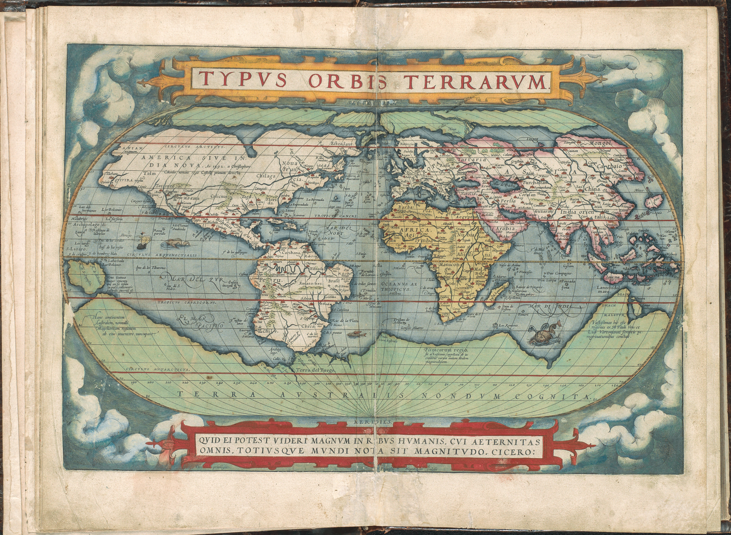 Plate '001av-001br' from the Atlas Ortelius by Abraham Ortelius. Original edition from 1571 with additions from 1573, 1579 and 1584. Complete description of this work (in Dutch) is available here. On this map the world is shown.